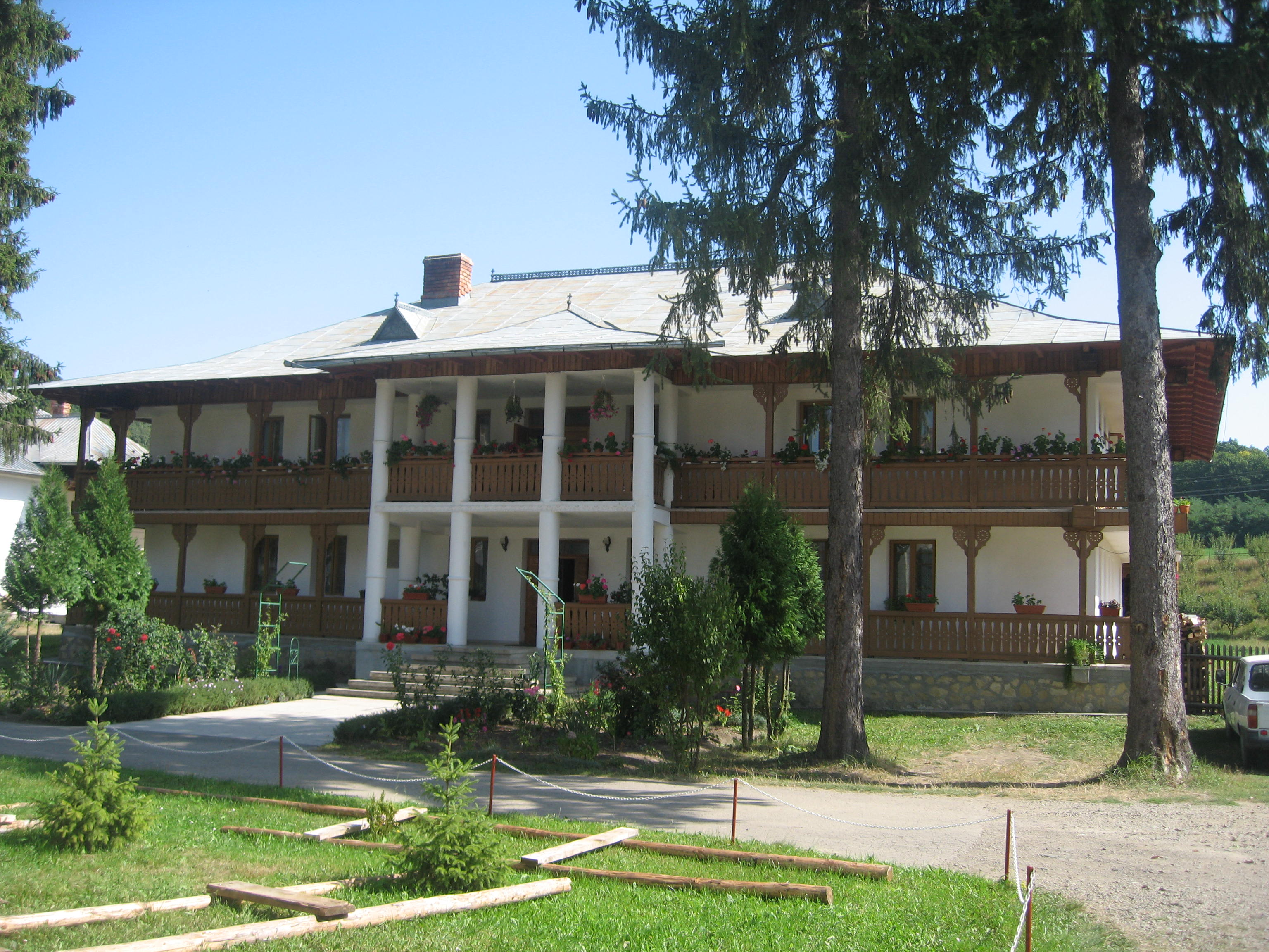 Mănăstirea Vorona 02